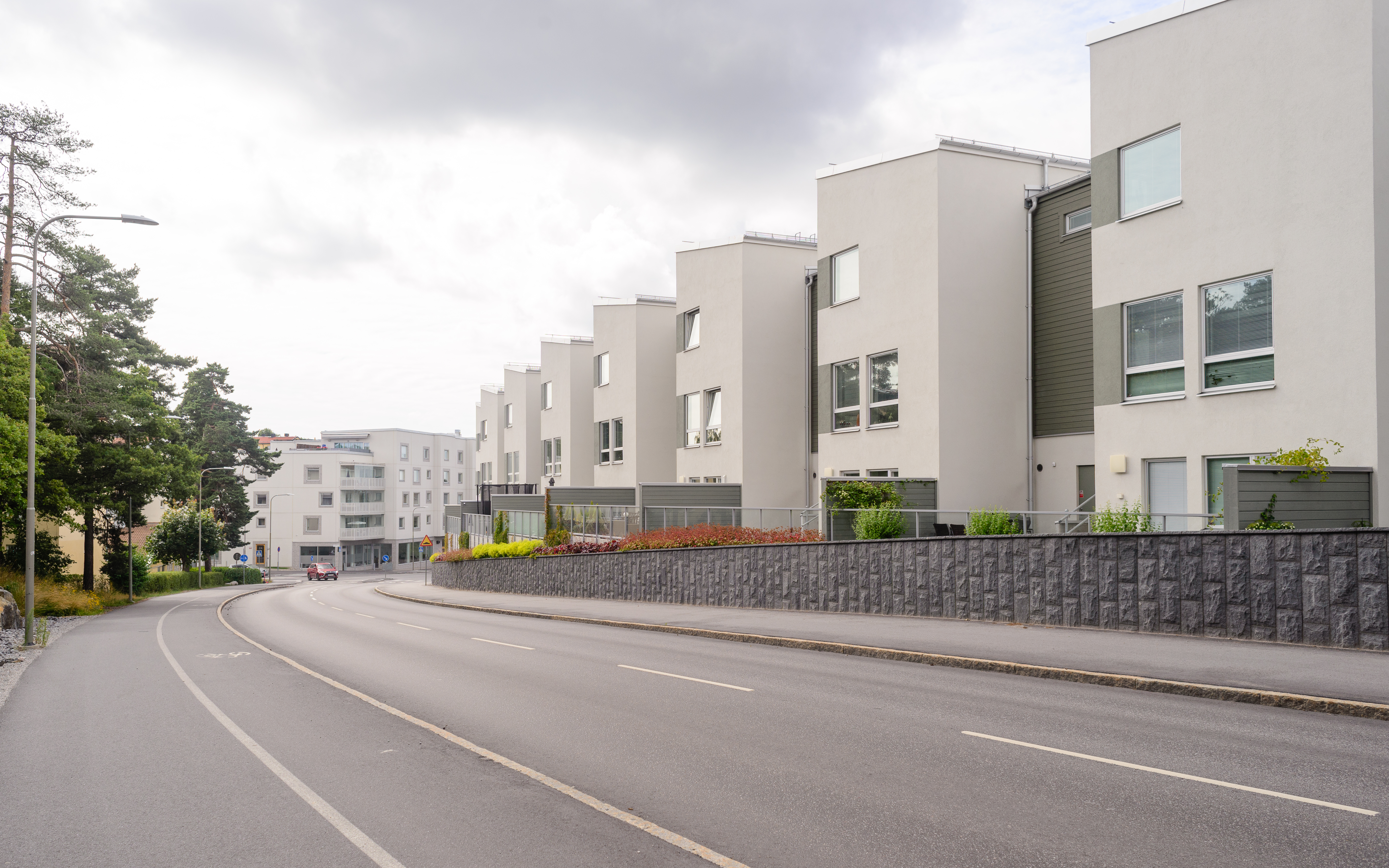 The street Sparrmansvägen in Hammarbyhöjden, Stockholm.